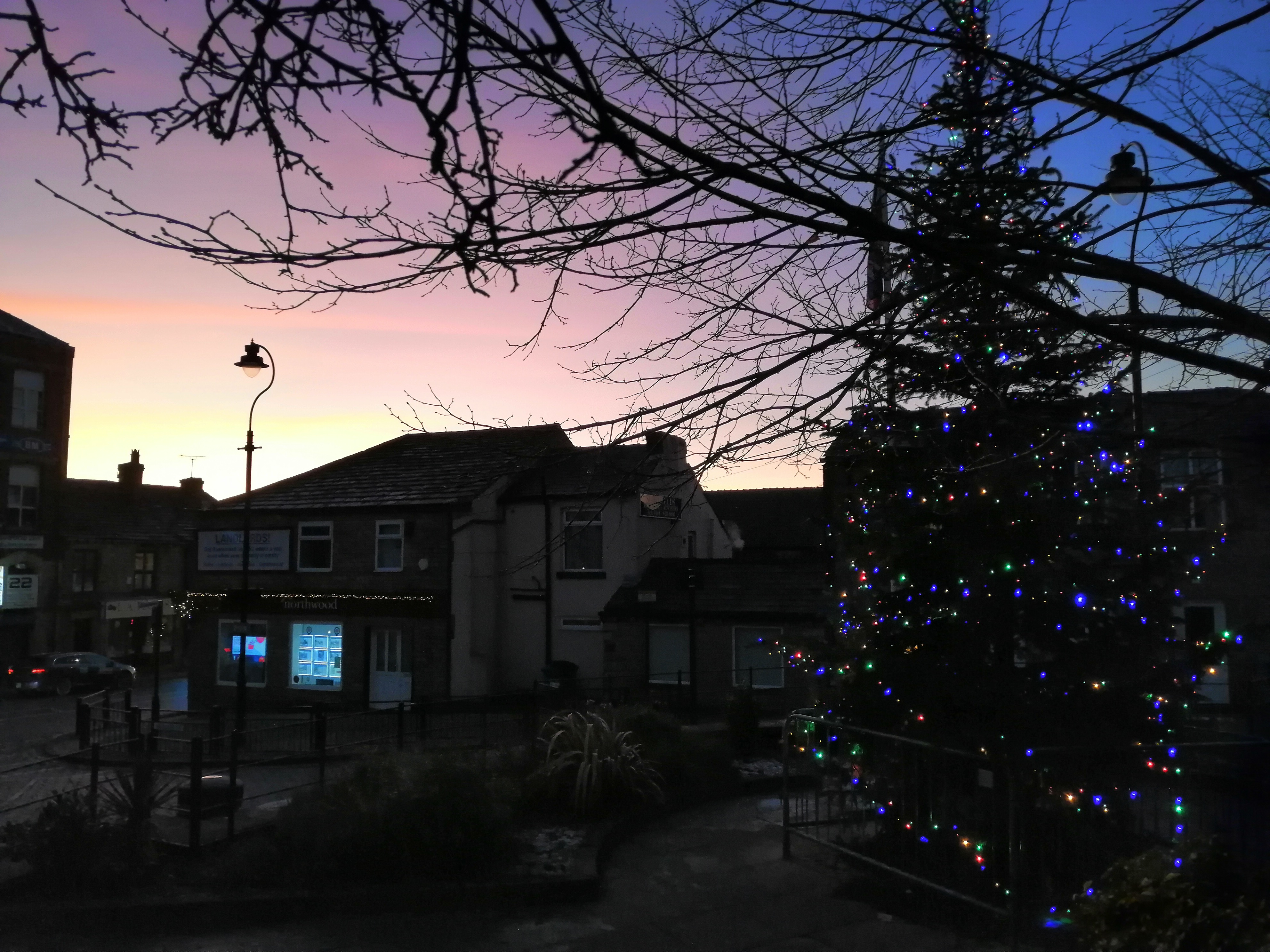 Christmas tree in lees square with a purple sky